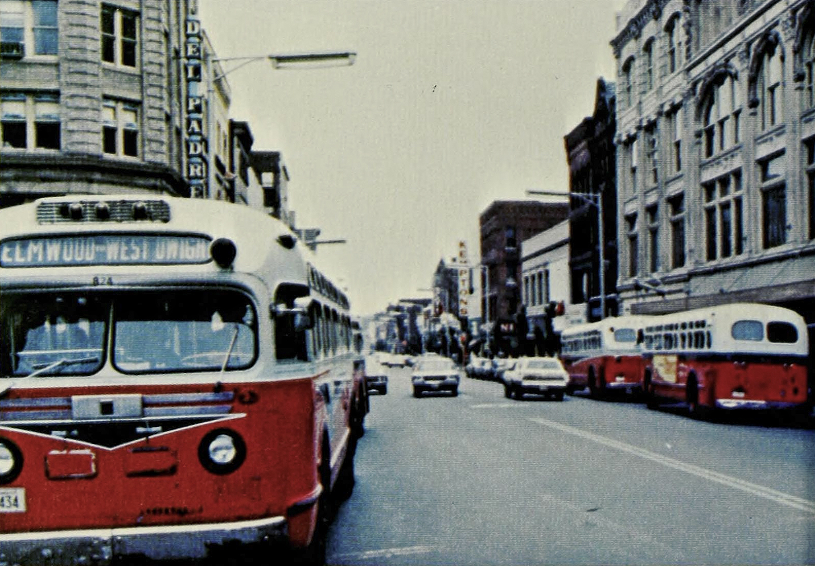 Buses of the Holyoke Street Railway on opposite sides of High St. prior to its change over to become a part of the PVTA system. The Smith/Prew block appears to the right; notice the traffic going in both directions in contrast with the one-way lanes today.